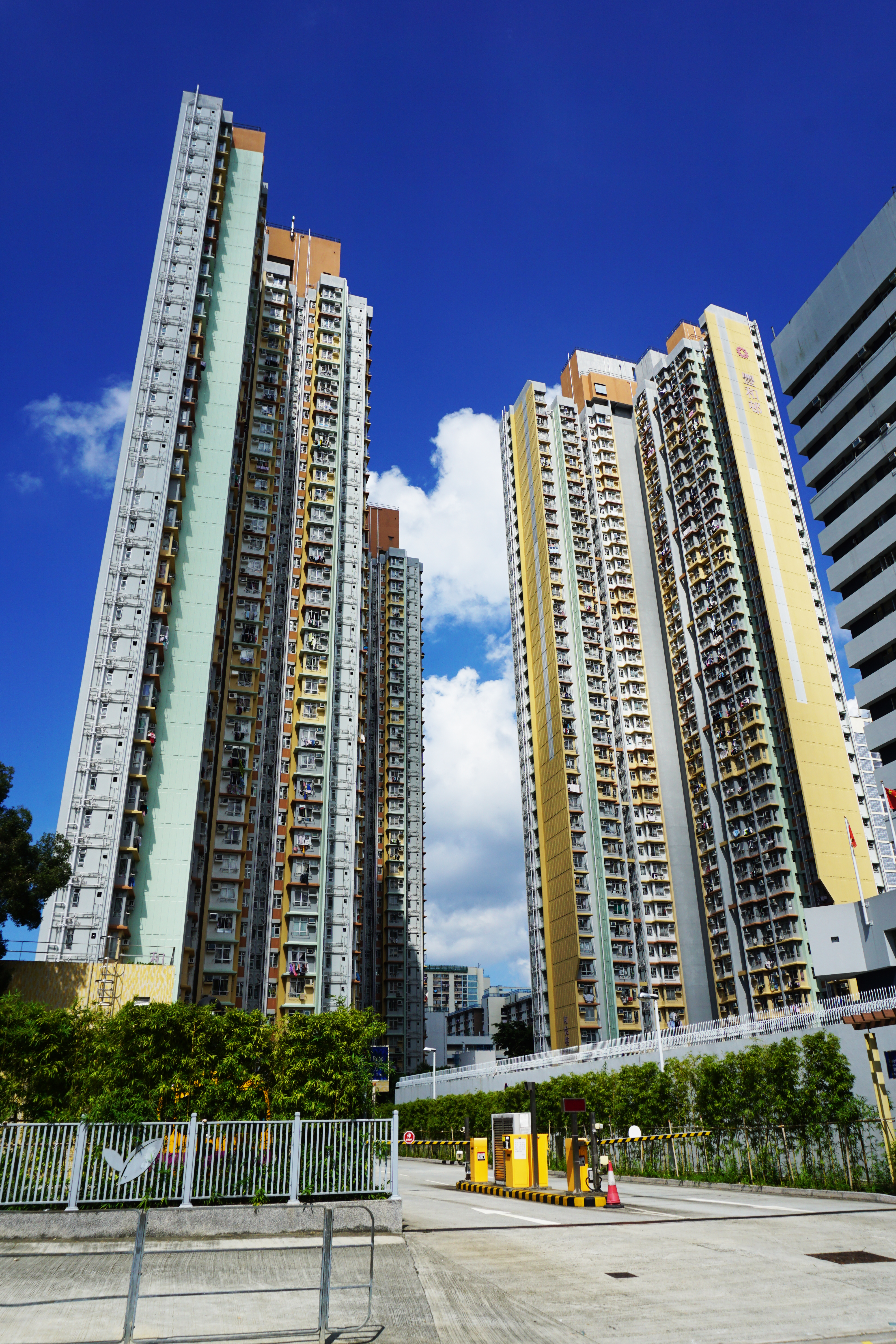 Fung Wo Estate in Shatin, Hong Kong.